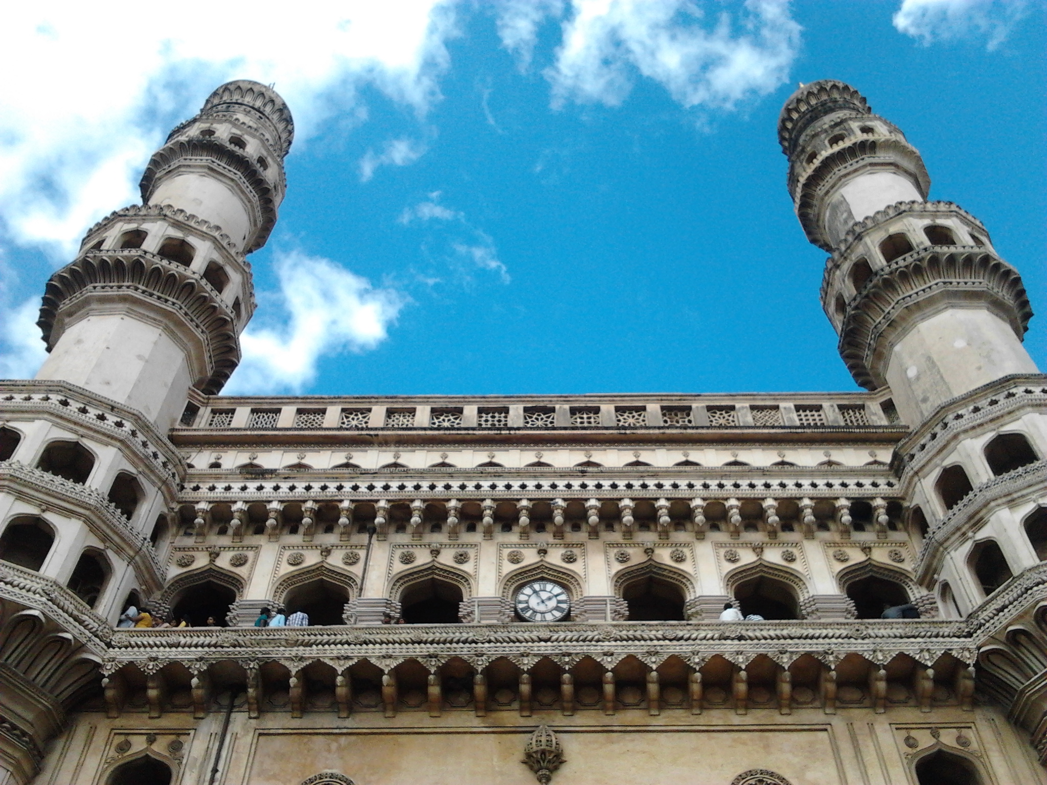 Charminar